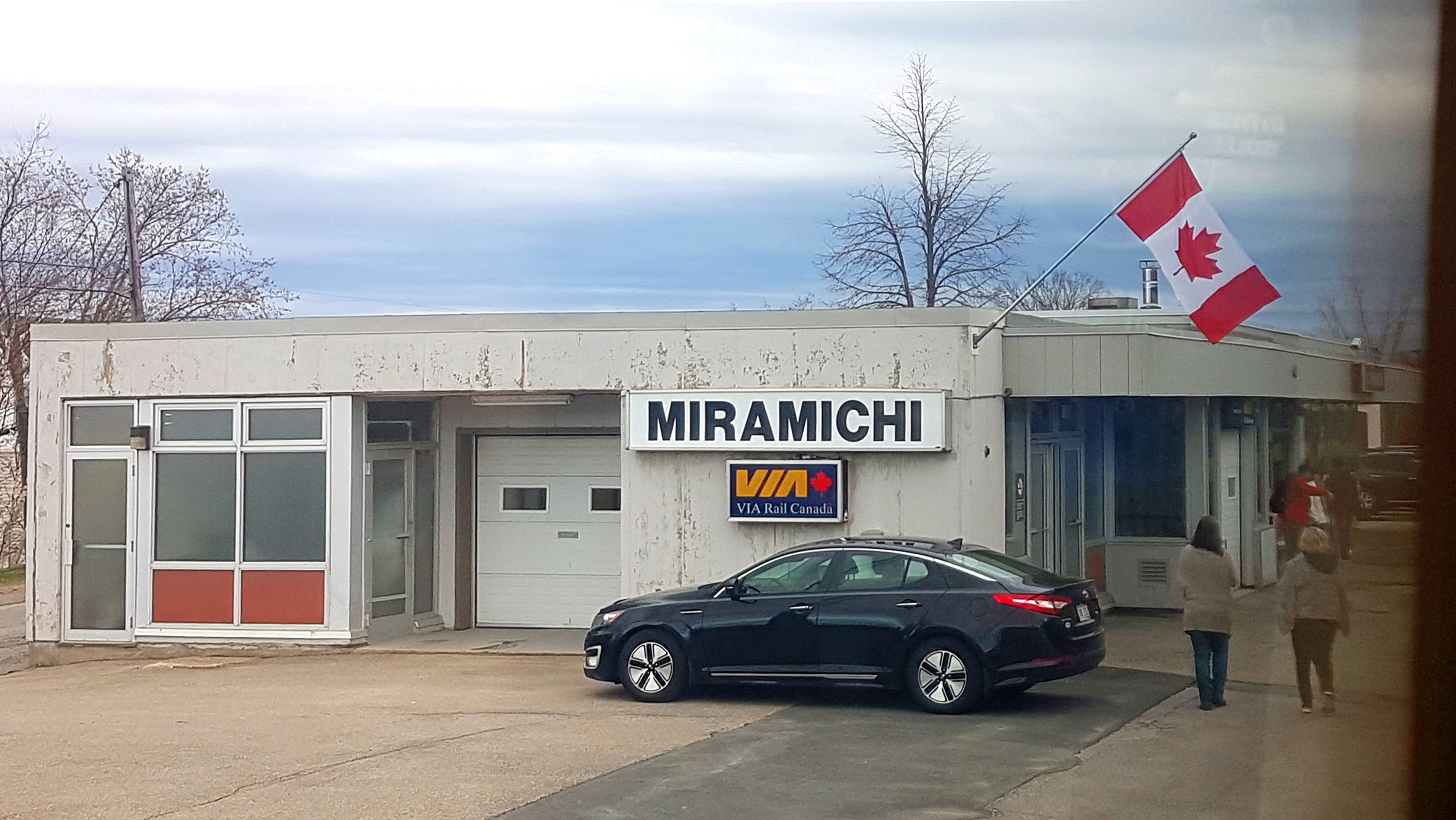 Miramichi railway station in Miramichi, New Brunswick, Canada on May 17, 2019. Gare de train (Via Rail) à Miramichi, Nouveau-Brunswick, Canada, 17 mai 2019.